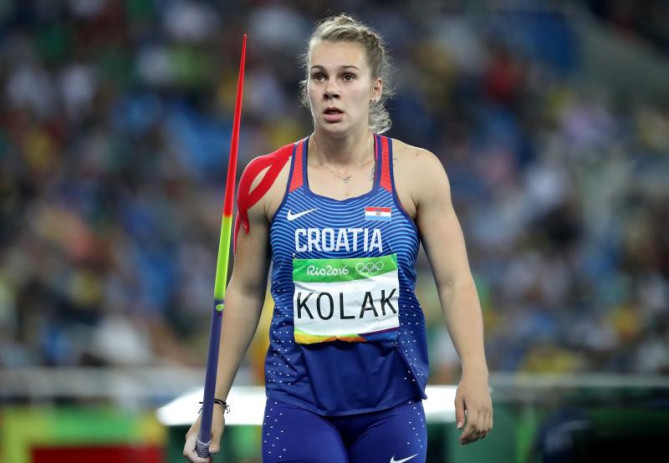 A picture of Sara Kolak, Croatian javelin thrower, in Rio de Janeiro.